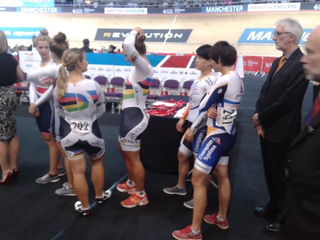 Women's team sprint, lineup for the podium. Germany: Miriam Welte, Kristina Vogel Great Britain: Victoria Williamson, Rebecca James China (riding for Max Success Pro Cycling): Junhong Lin, Tianshi Zhong